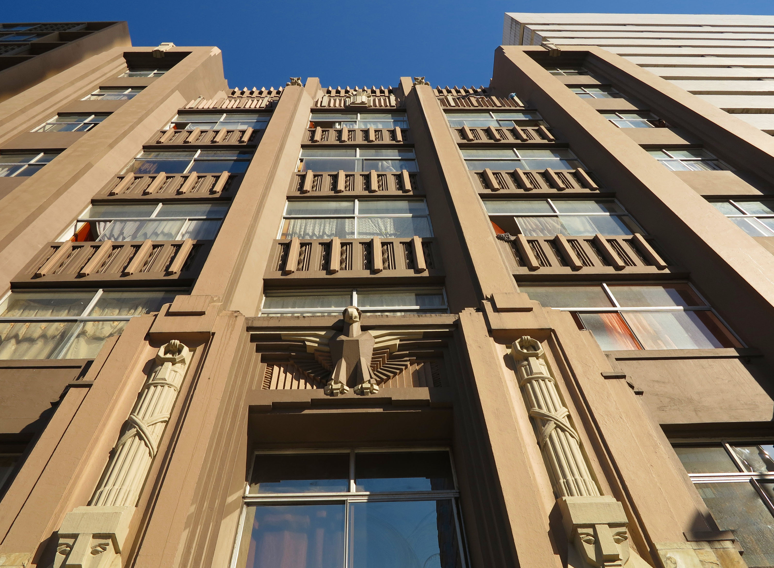 Durban has many Art Deco buildings and "Enterprise Building" in Aliwal Street was the first Art Deco building in Durban displaying Roman fasces.